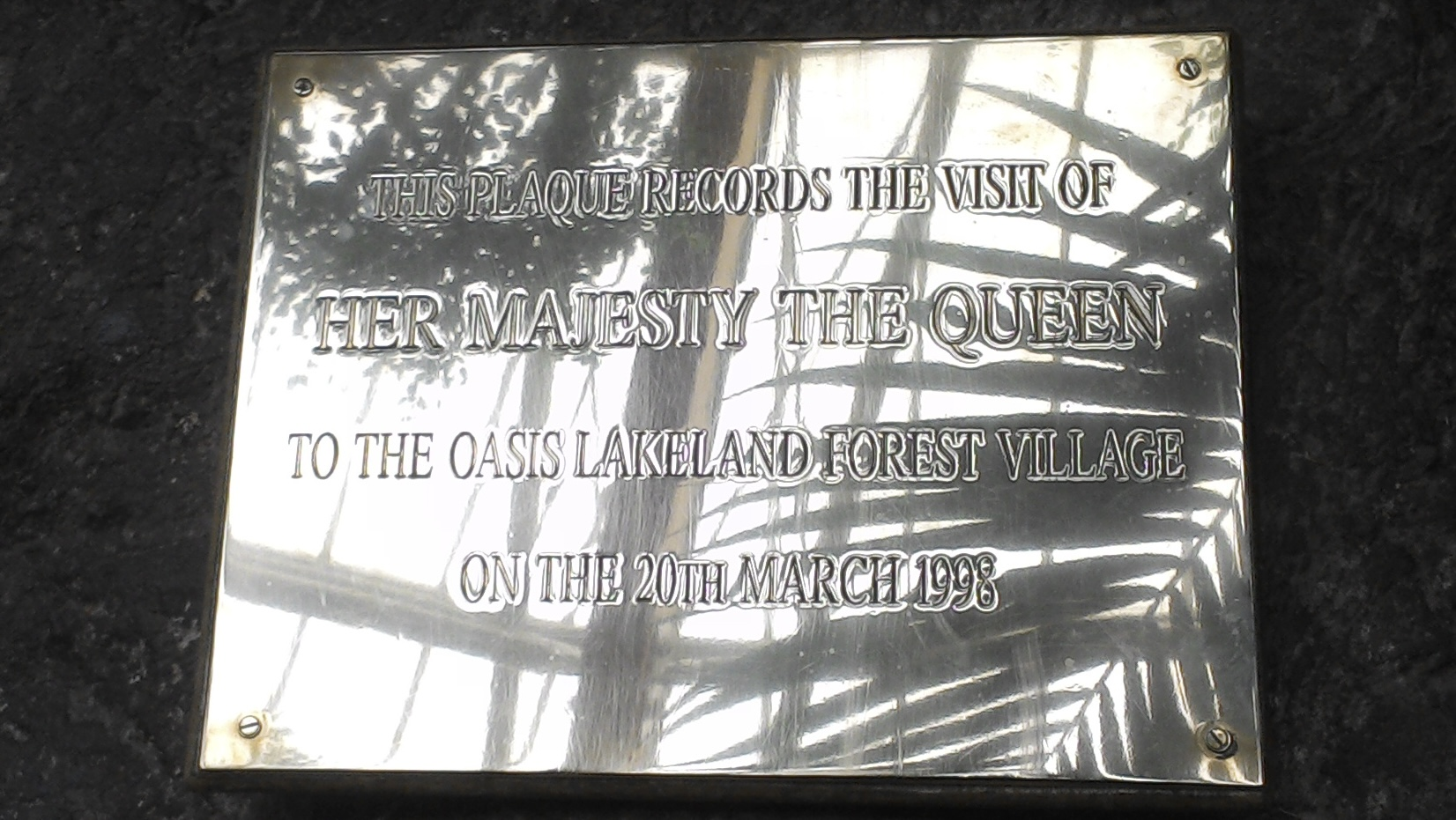 Recording the visit of HM The Queen to the oasis lakeland forest village shortly after Center Parcs absorbed Whinfell Forest.